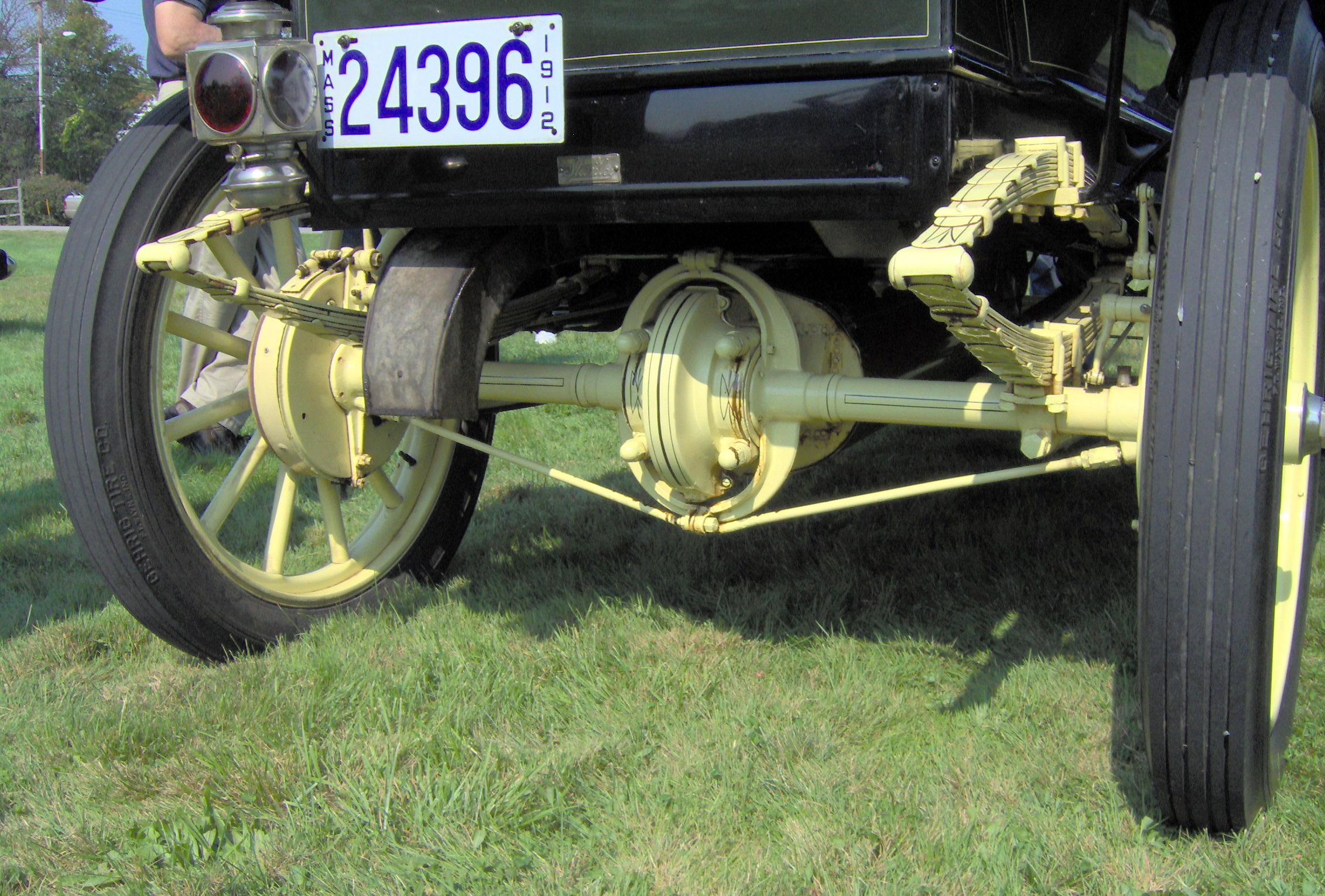 1912 Staney steam car